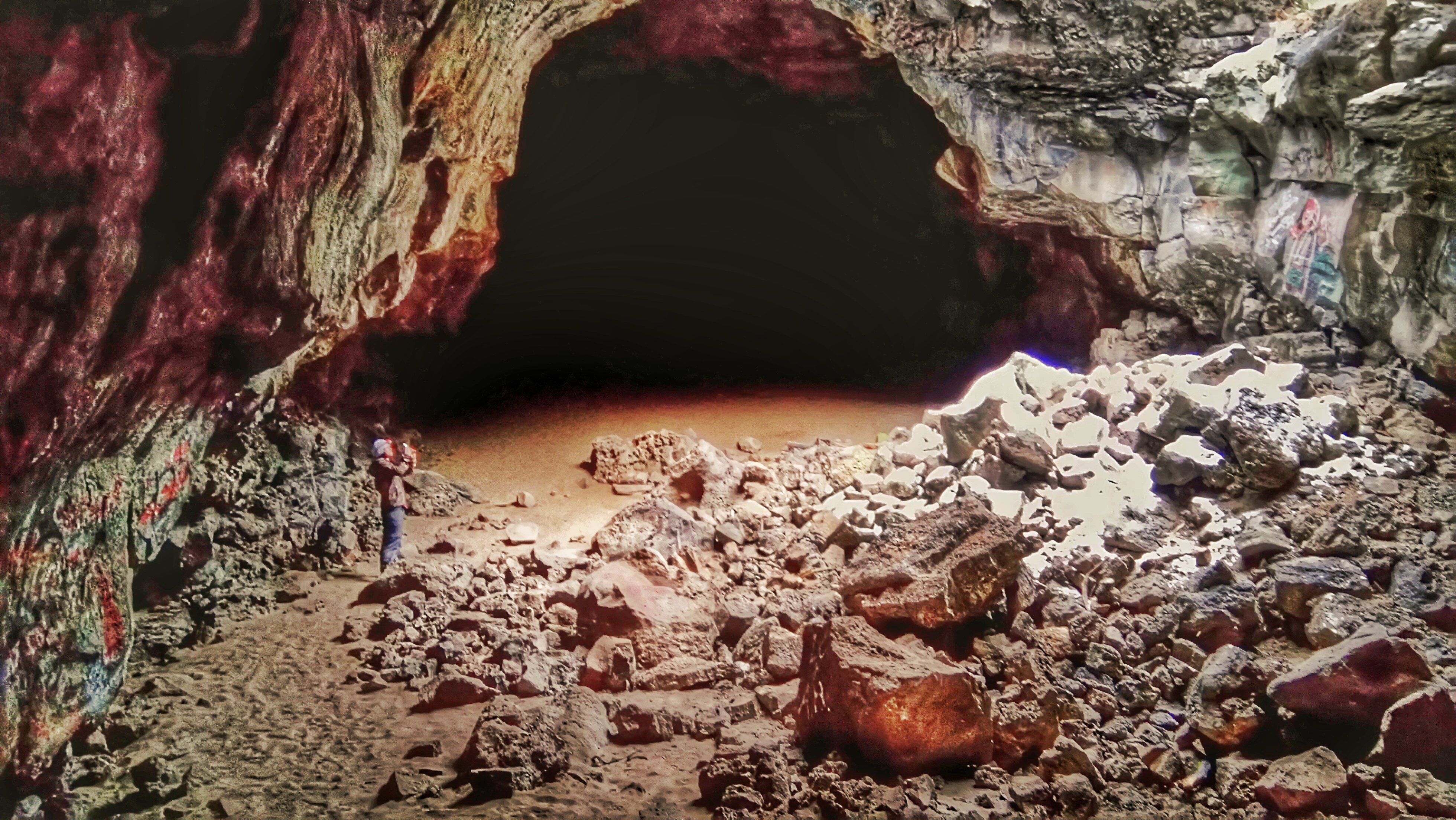 Pluto's Cave Altar Hole